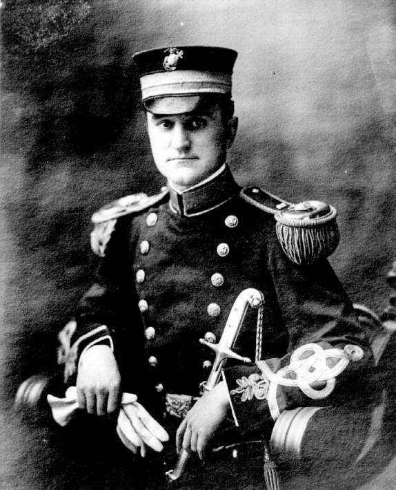 1st Lieutenant Edward B. Cole, United States Marine Corps. Cole reached the rank of Major during World War I; died of wounds received in the Battle of Belleau Wood — received the Navy Cross and the Distinguished Service Cross for his heroism in this battle